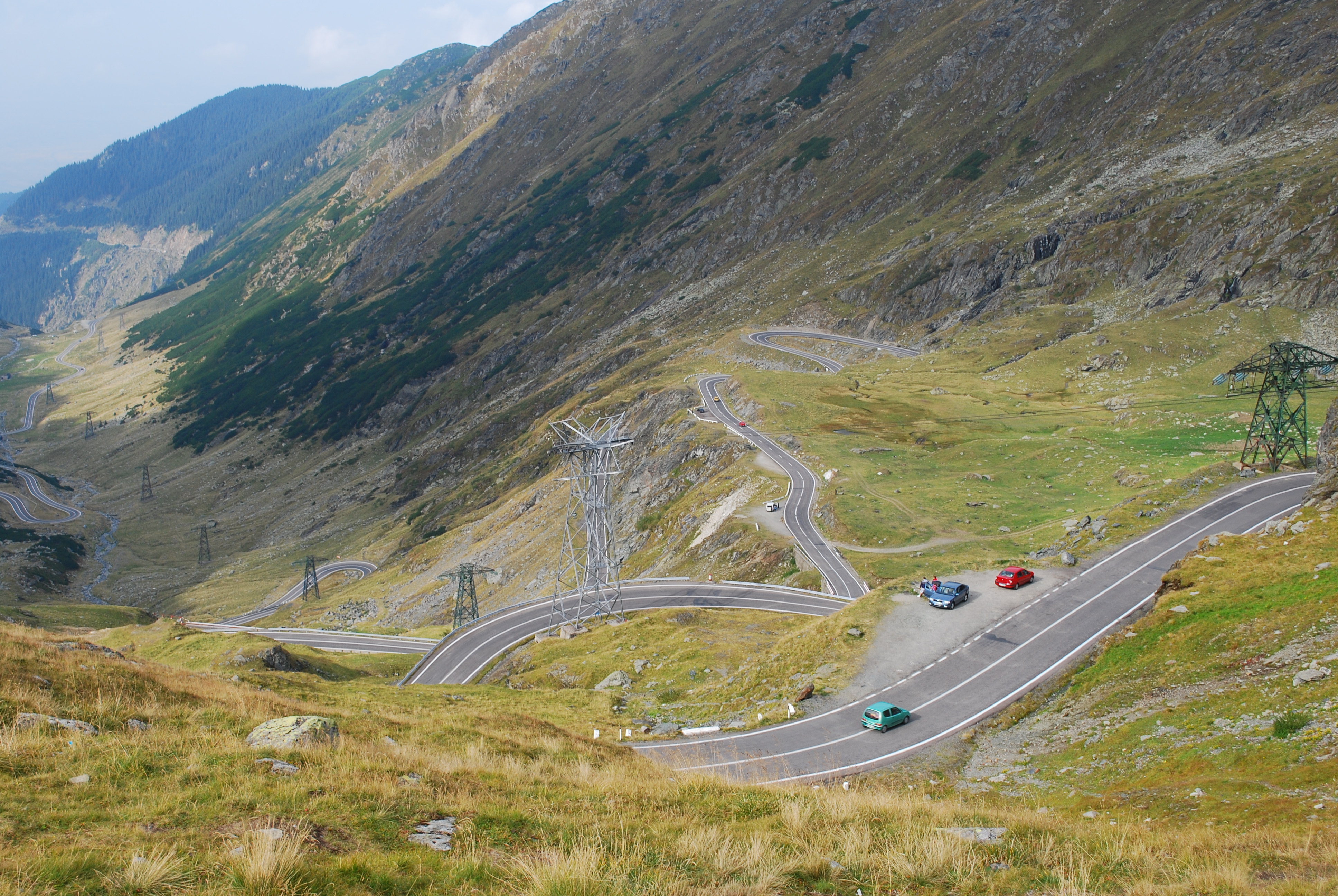 Transfăgărăşan road view from Lake Bâlea towards the north slope.